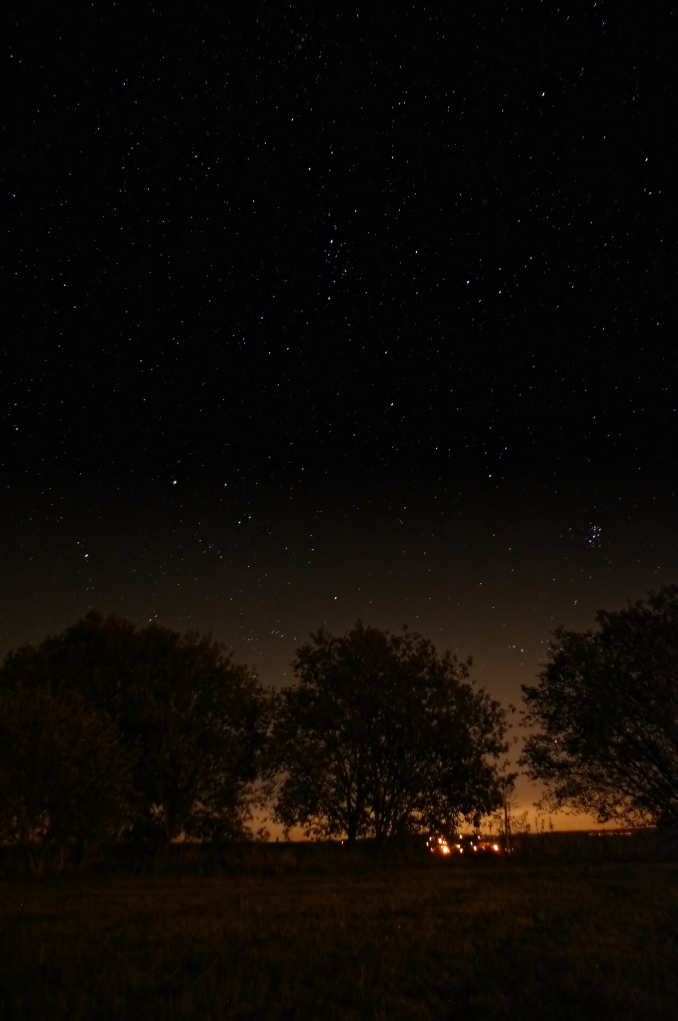 Perseus constellation photographed on 13 October 2007 near Freiberg (Germany).